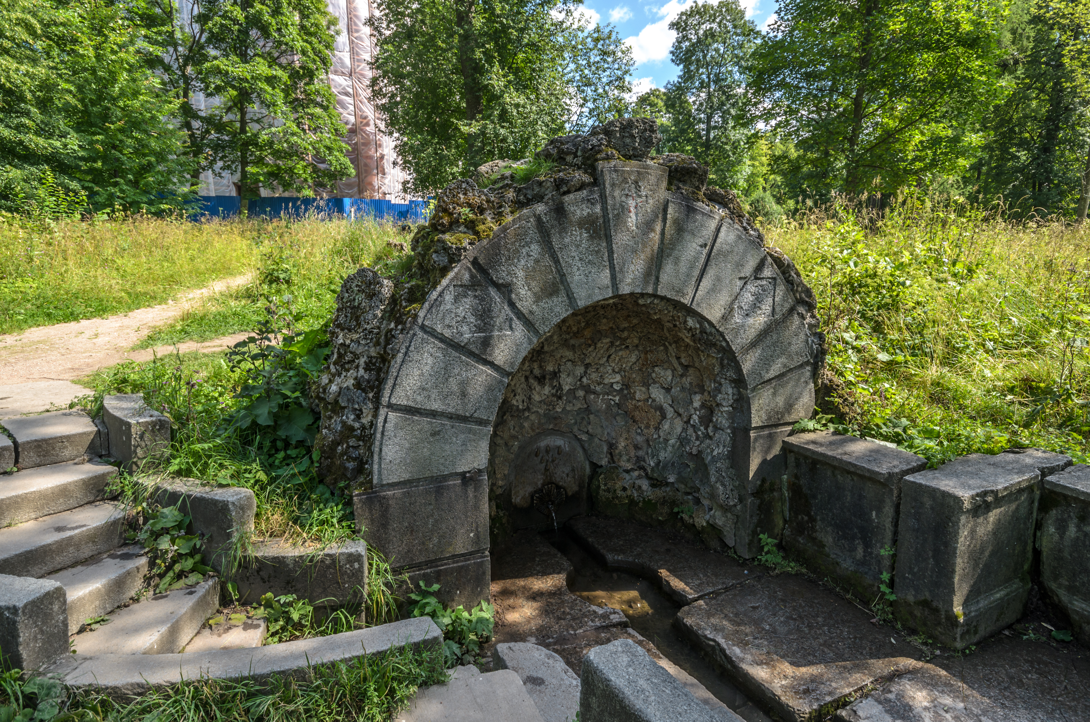 Spring in Alexandrovsky Park of Tsarskoe Selo